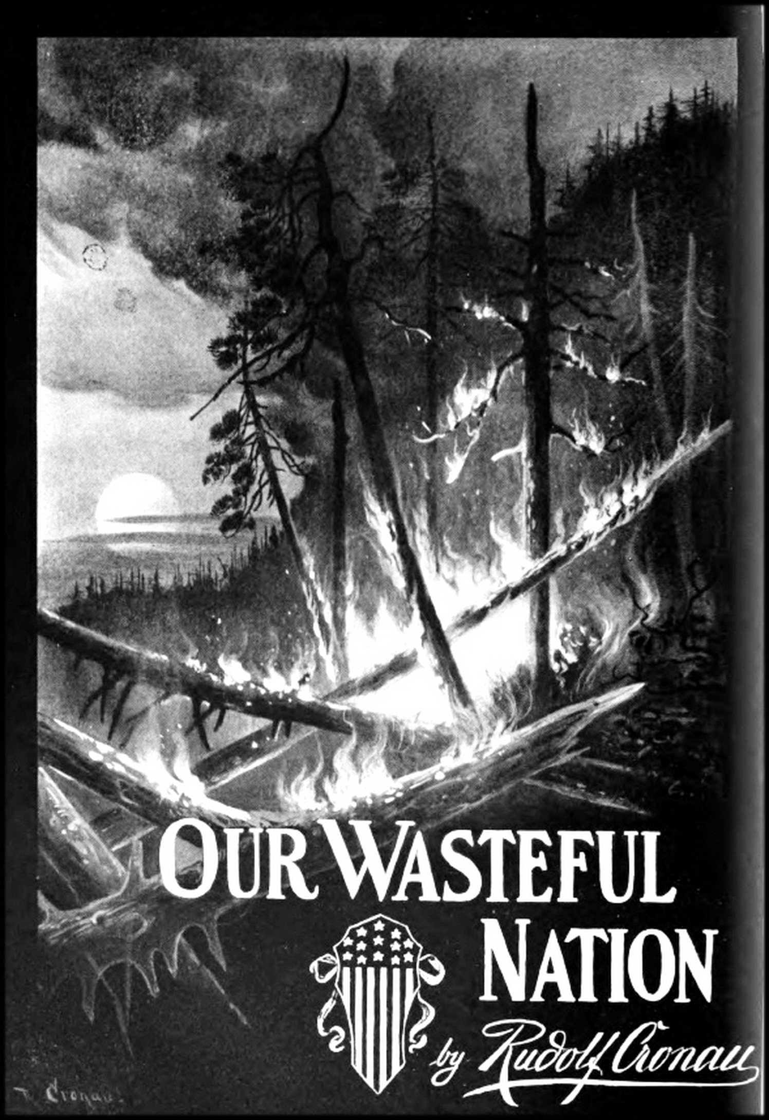 OUR WASTEFUL NATION image - by Author: Rudolf Cronau. Simply follow the link from the image to the full book/s